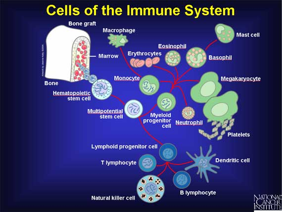 Various cells that participate in immune functions. Note that even though hematopoietic stemm cell, erythrocyte, maegakaryocyte and platelets are found in the blood, they do not participate in immune functions.